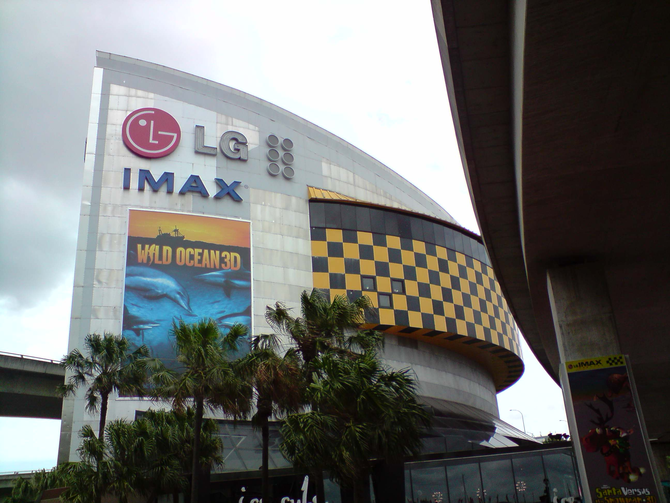 A photo of the LG IMAX in Sydney, Australia.